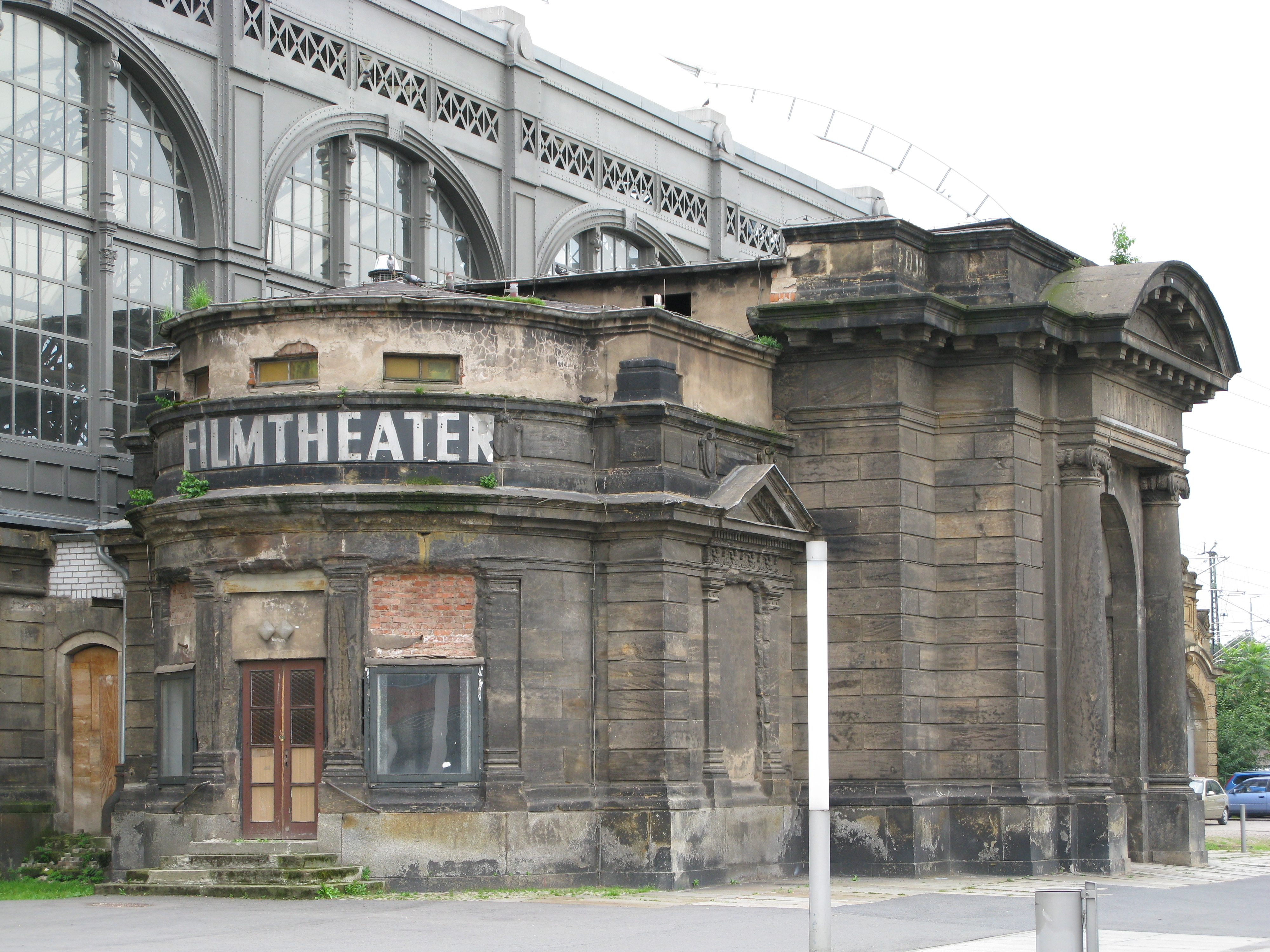 King's pavillon at Dresden Main Station, 1950–2000 used as cinema